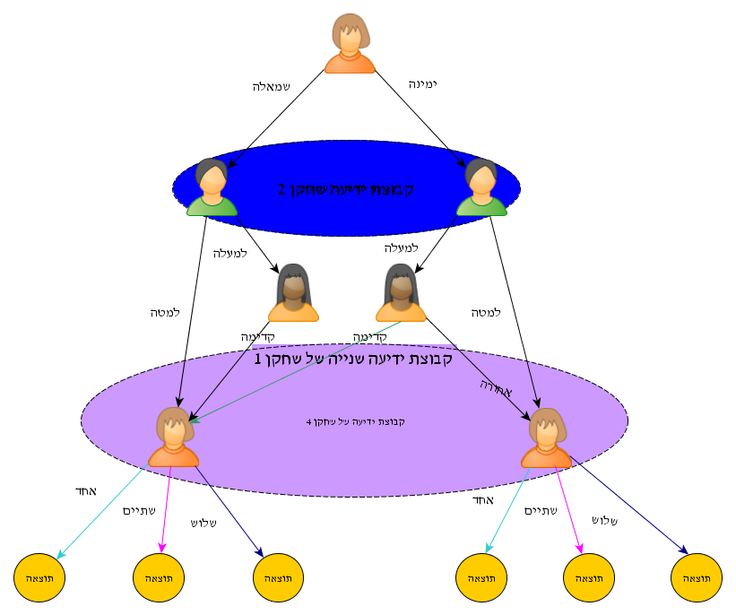 information set example- 3 players game - hebrew subtitles